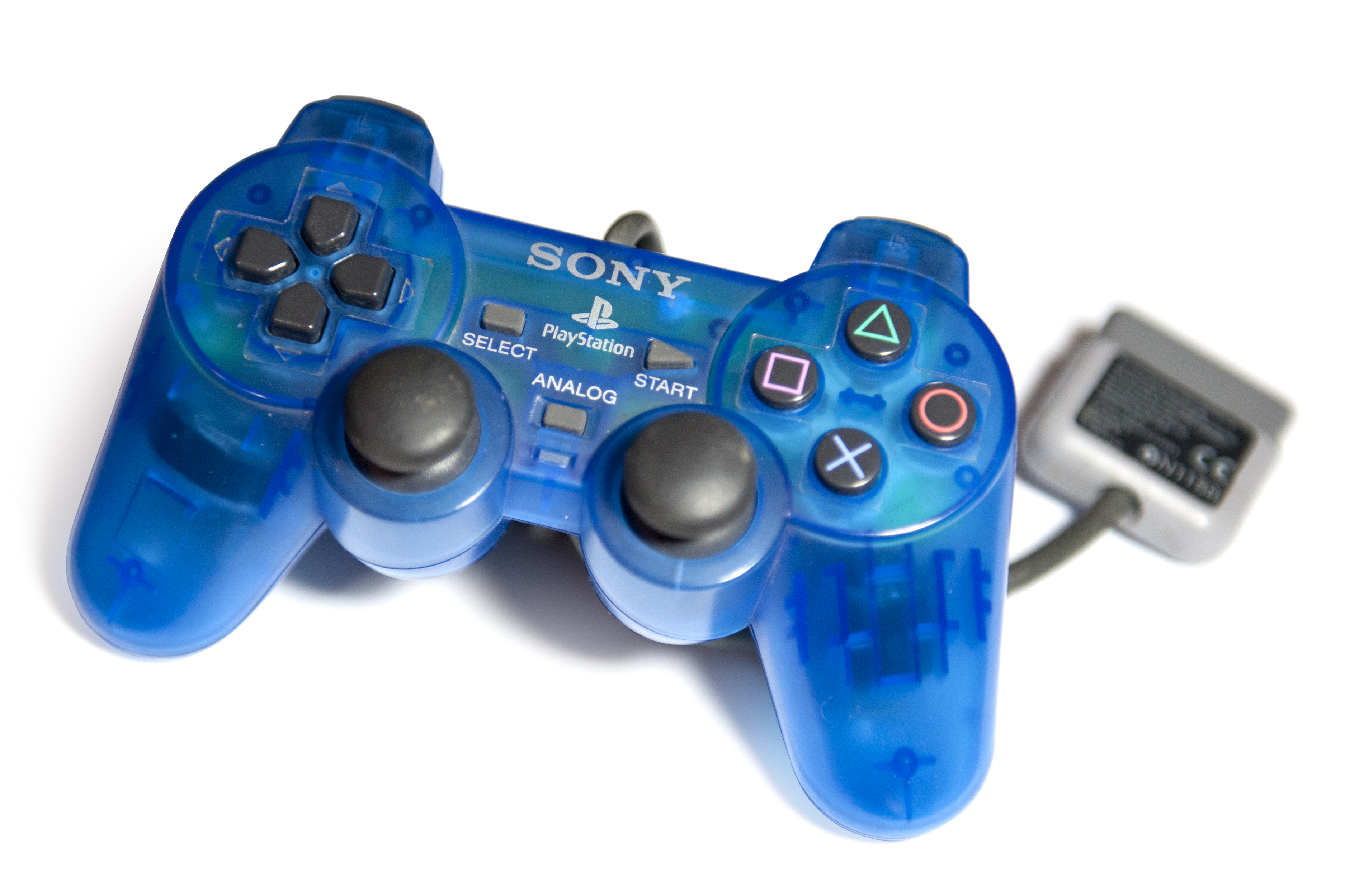 Translucent Blue DualShock controller for the Sony PlayStation.